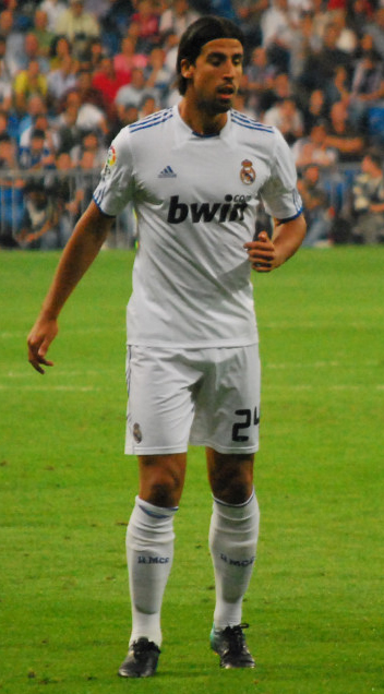 Sami Khedira was in the match on 21st September, 2010. The size of this image was adjusted by Photoshop. The original photo was taken by Jan S0L0 in Chamartín, Madrid.